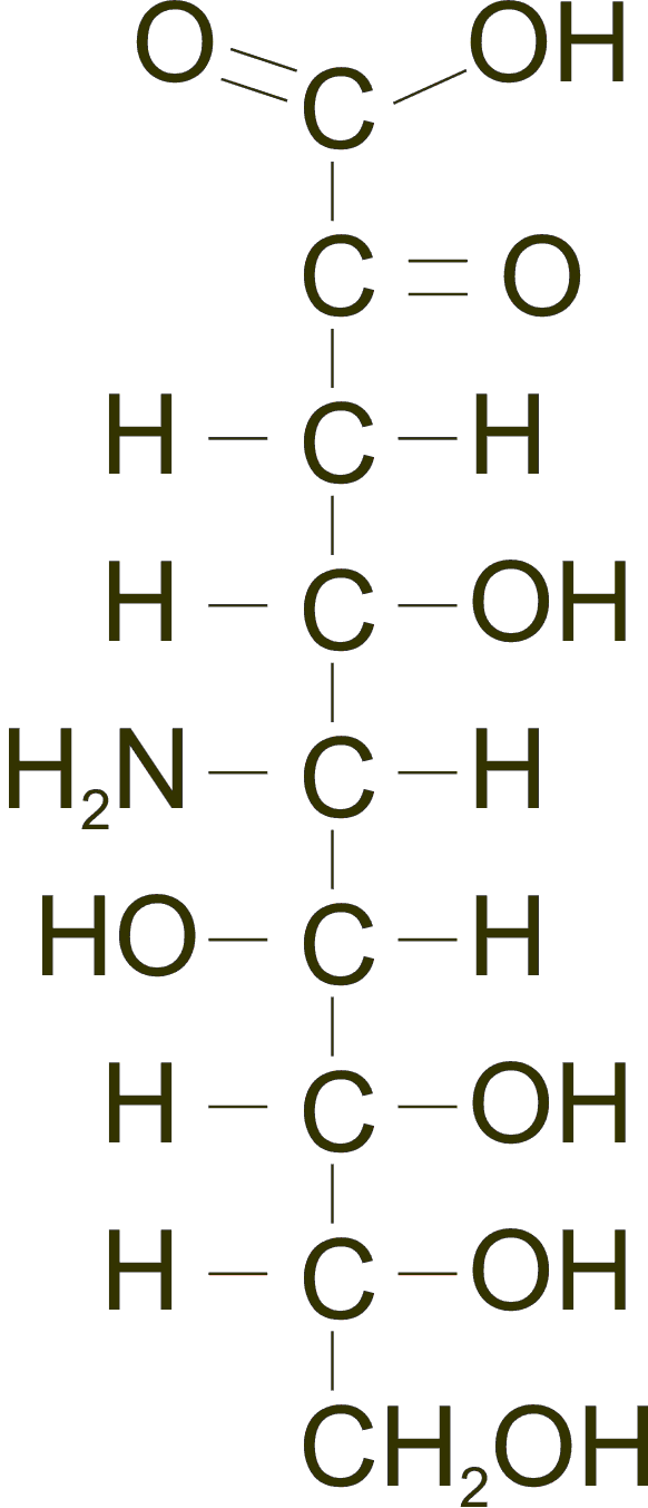 neuraminic acid Fischer